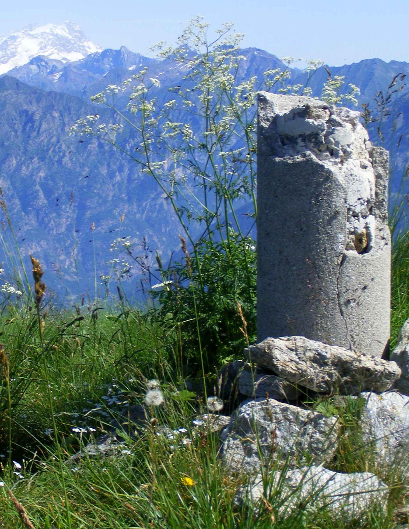 Bec di Nona (Alpi Biellesi, TO/AO, Italy): the pillar on the summit, in the background the Monte Rosa